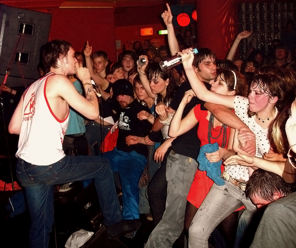 Pete Doherty on stage with his band The Babyshambles live at The Atomic Café, Munich on 2006-06-04